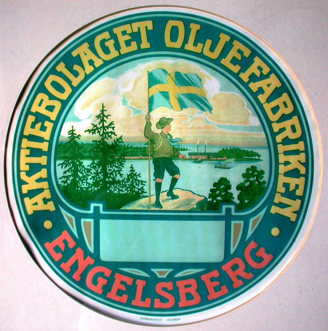 The old company sign of AB Oljefabriken, Engelsberg, prior to 1902